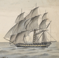 H.M.S. Director 1784 with St Helena in the distance Mounted with PAH0743-PAH0744.